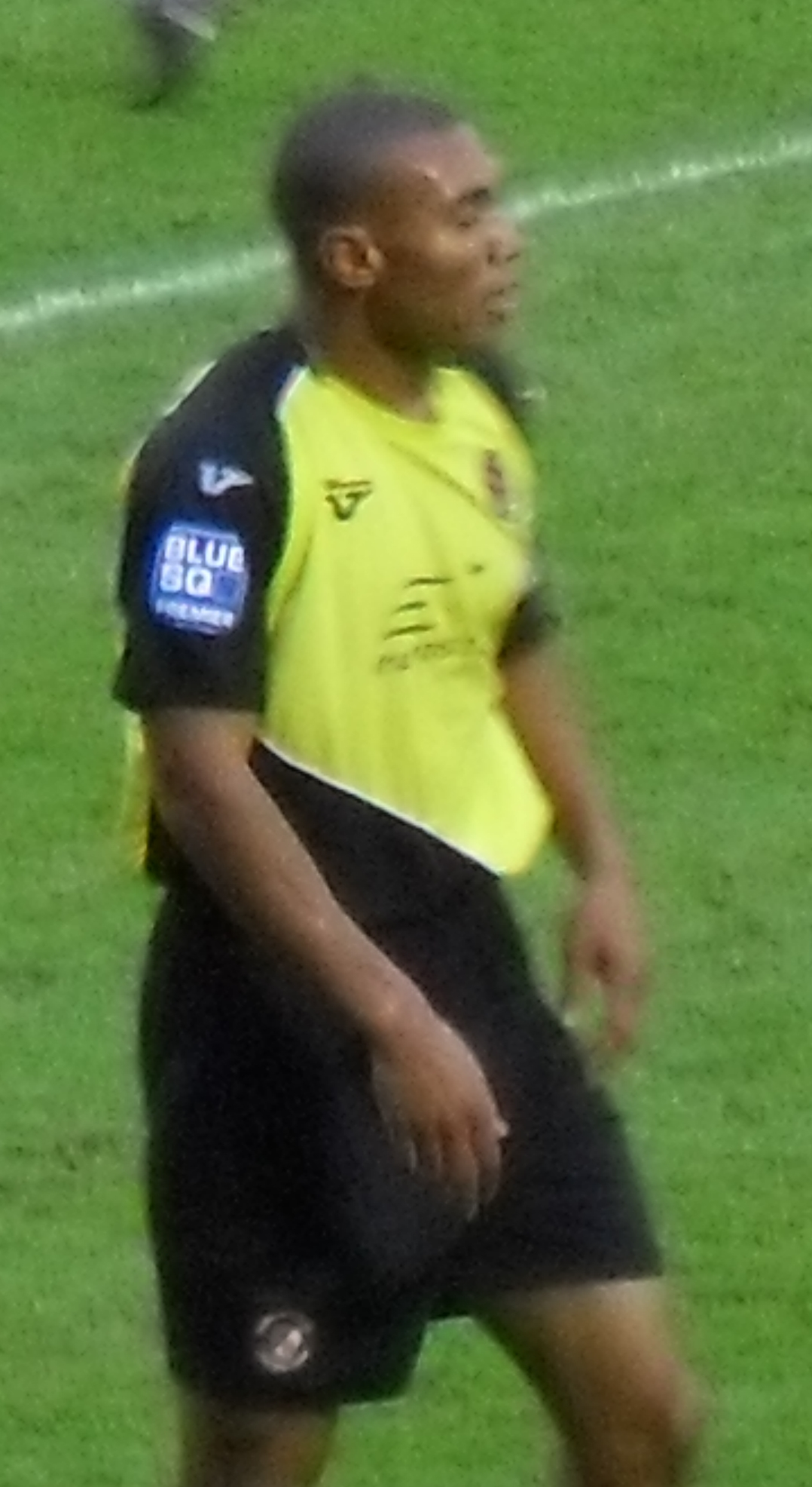 Darius Charles playing for Ebbsfleet United against York City at Bootham Crescent, York on 14 November 2009